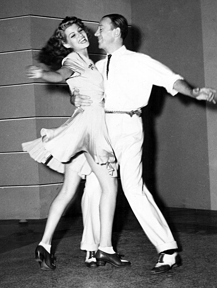 Original publicity photo of Fred Astaire and Rita Hayworth for film You Were Never Lovelier (1942).